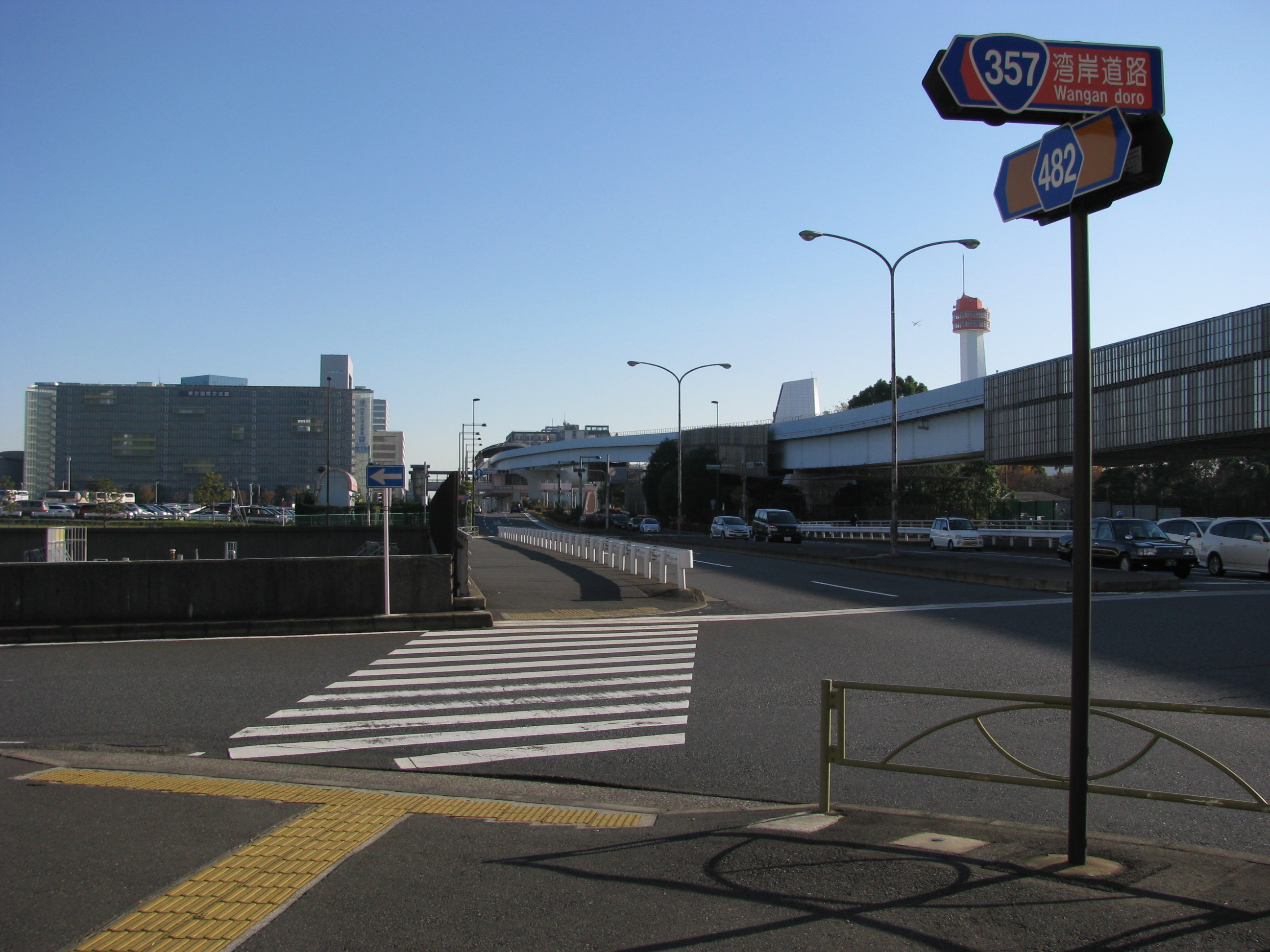 The Tokyo Prefectural Route 482. This location is Daiba in Minato, Tokyo, Japan.